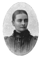 Edith Forssman (1856-1928)